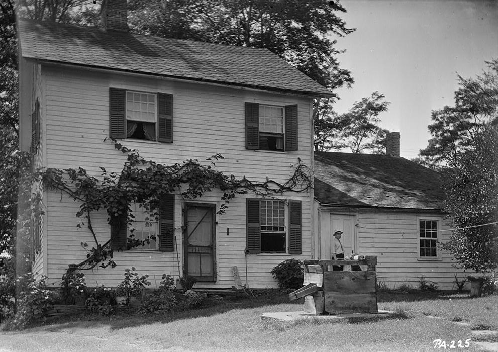 David Wilmot House, Wayne Street, Bethany, Wayne County, Pennsylvania, USA.